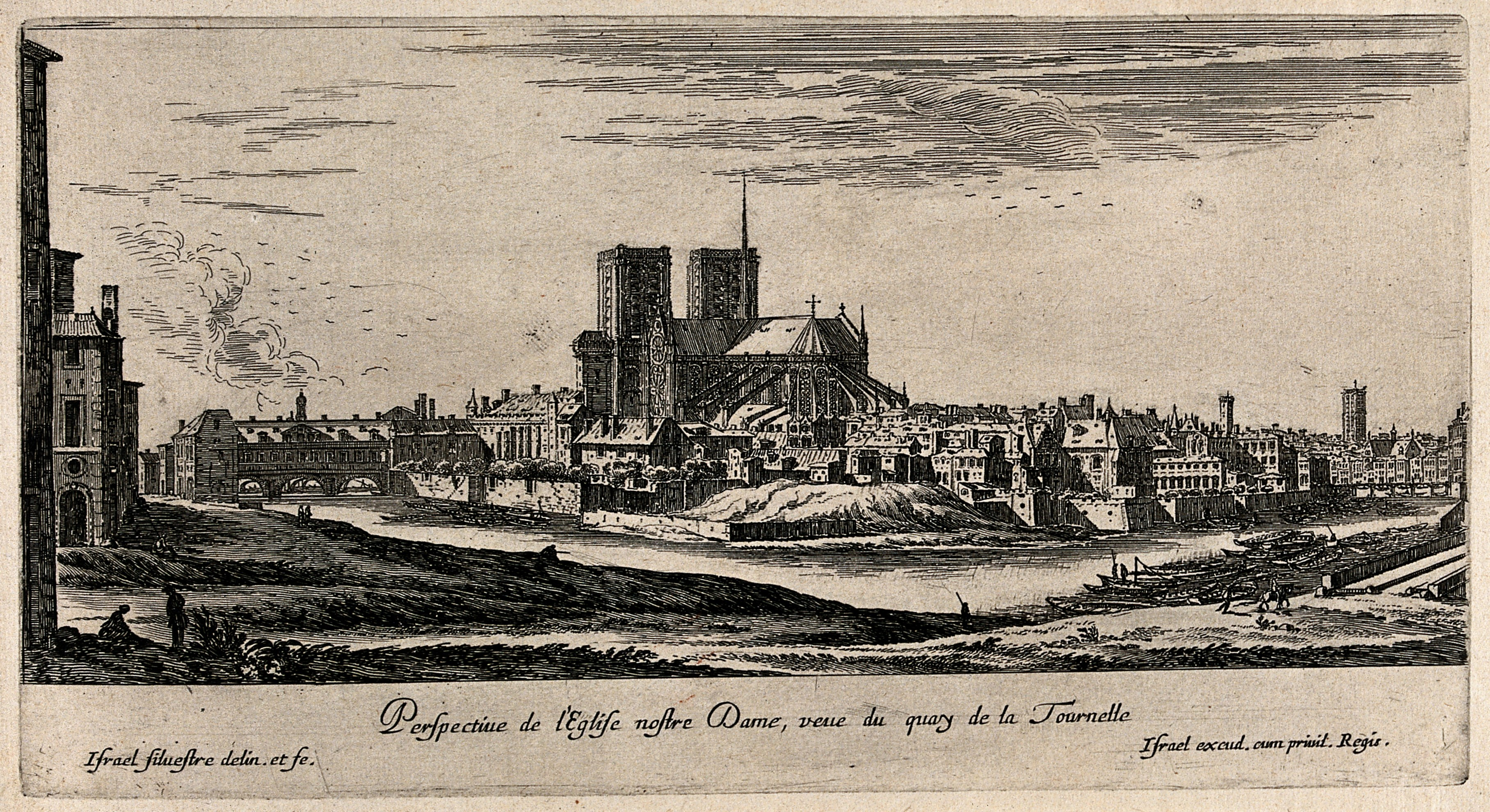 Isle de la Cité with Notre Dame. Etching by I. Silvestre Iconographic Collections Keywords: Israel Silvestre